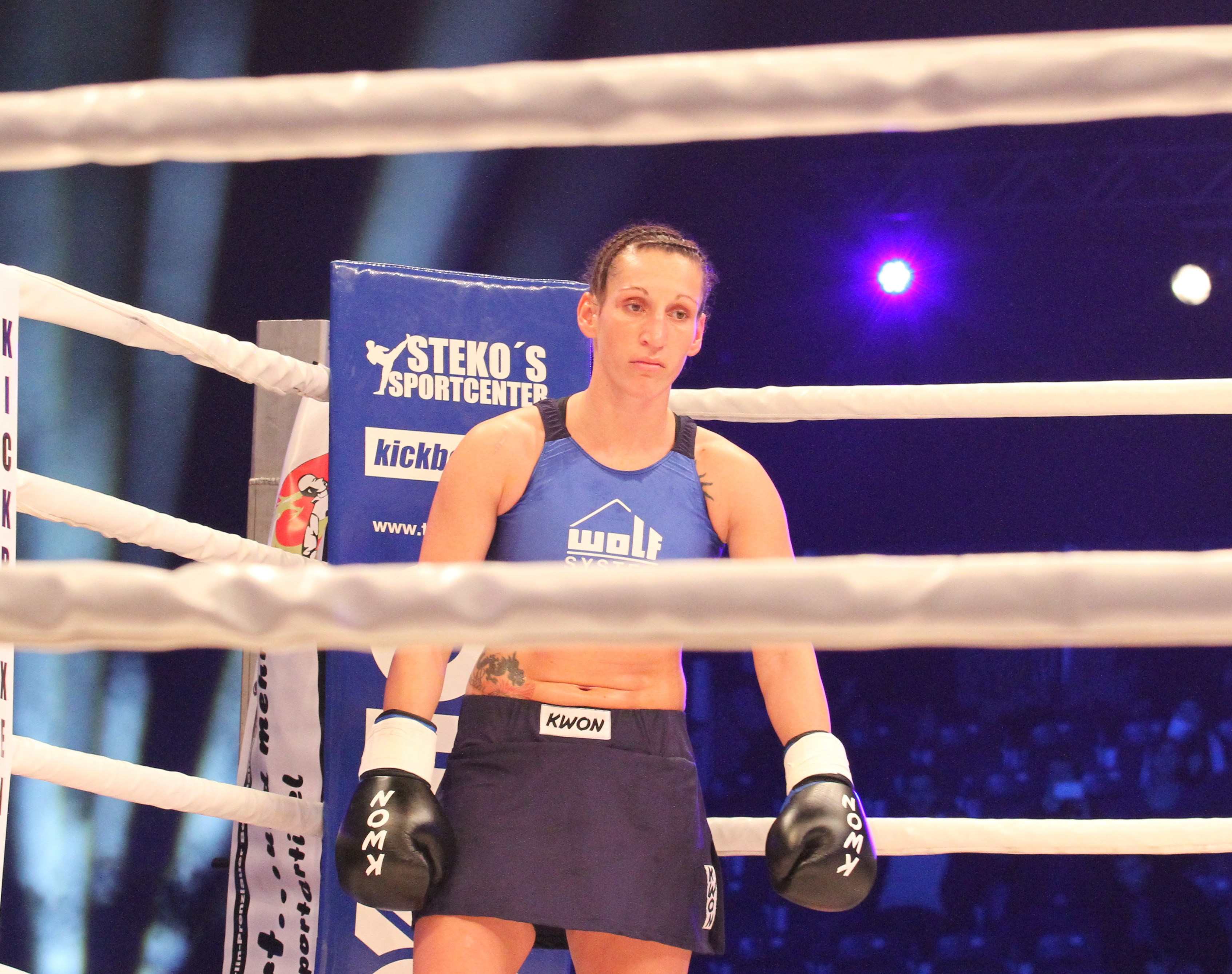 Kickboxing WKU-World-Champion Julia Irmen